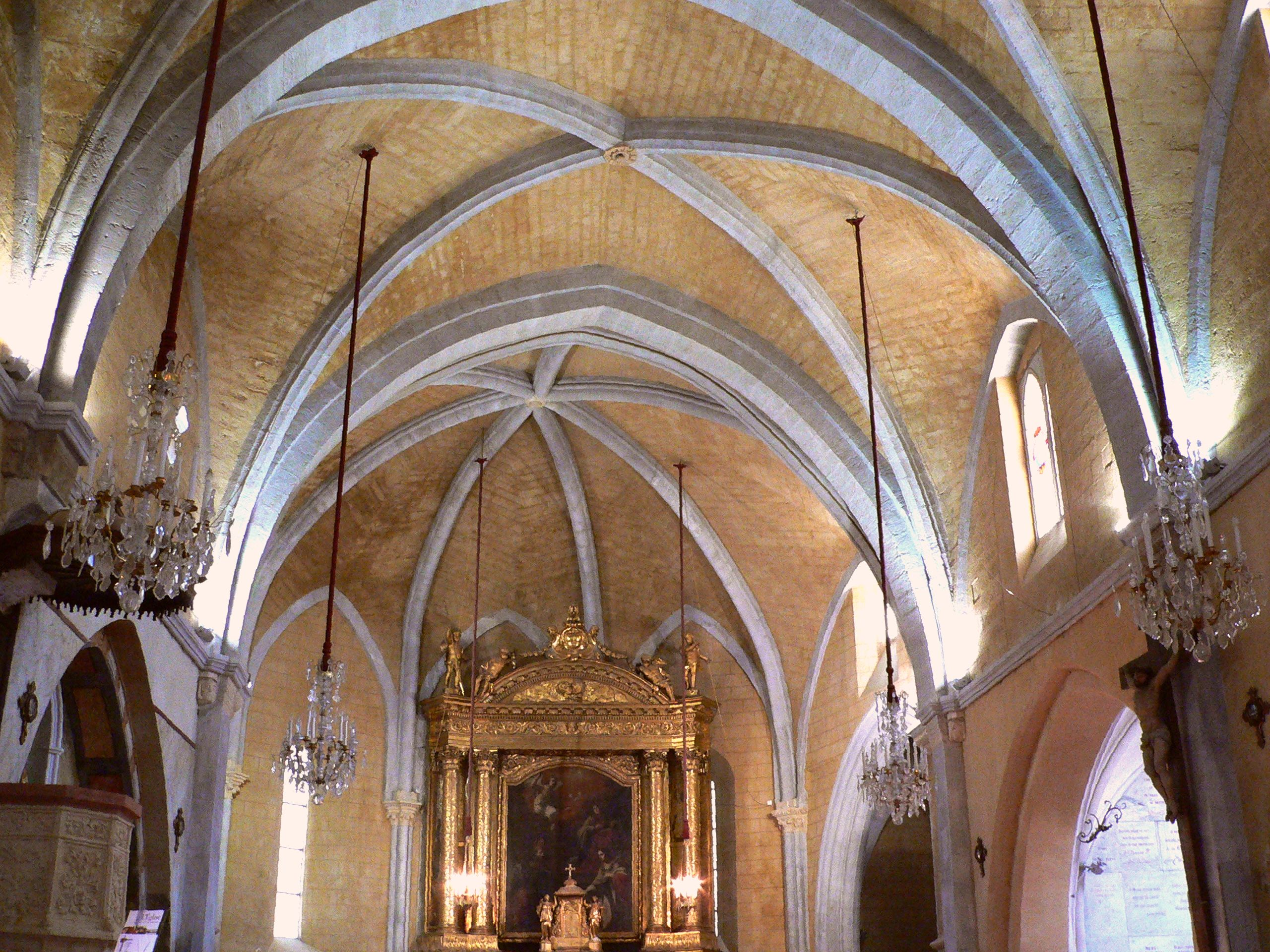 Chapelle St Michel Salon de Provence Août 2005 M. Disdero